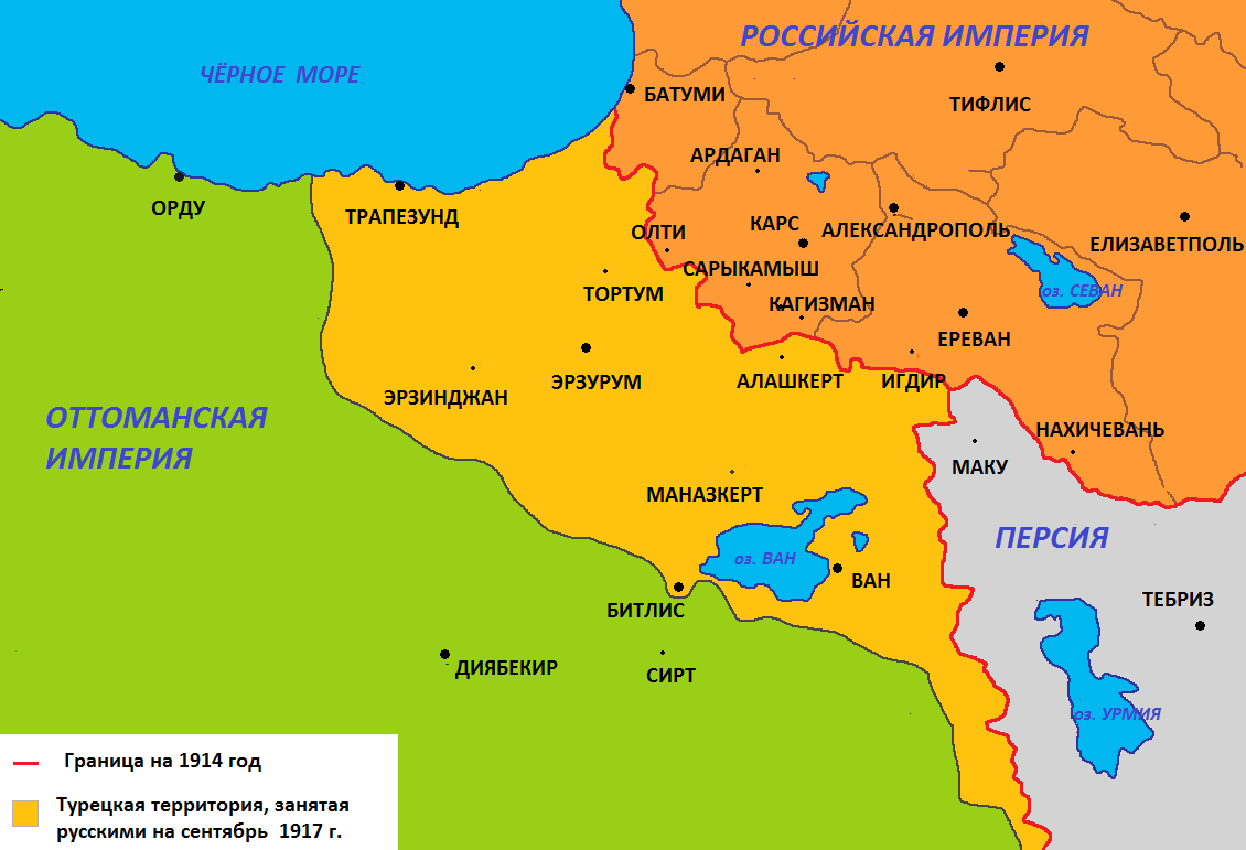 Western Armenia September 1917